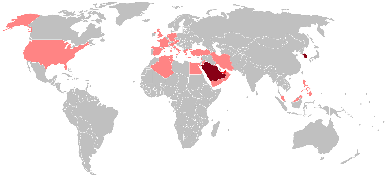 MERS-CoV cases: more than 100 confirmed cases 50 to 99 confirmed cases 1 to 49 confirmed cases